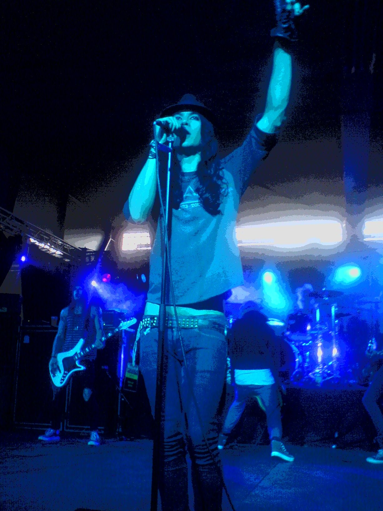 Vains of Jenna live at Hellfield Fest Jesse Forte's doin blue